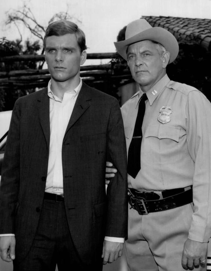 Photo of Keir Dullea (left) and Denver Pyle from the television program Kraft Mystery Theatre. The episode is "Cry Ruin".